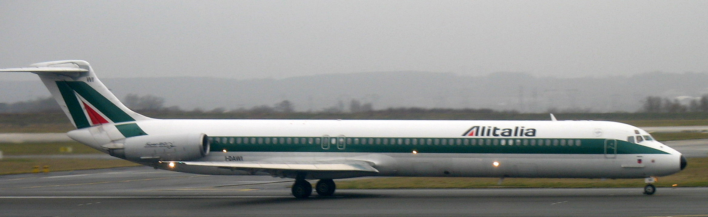 Alitalia aircraft